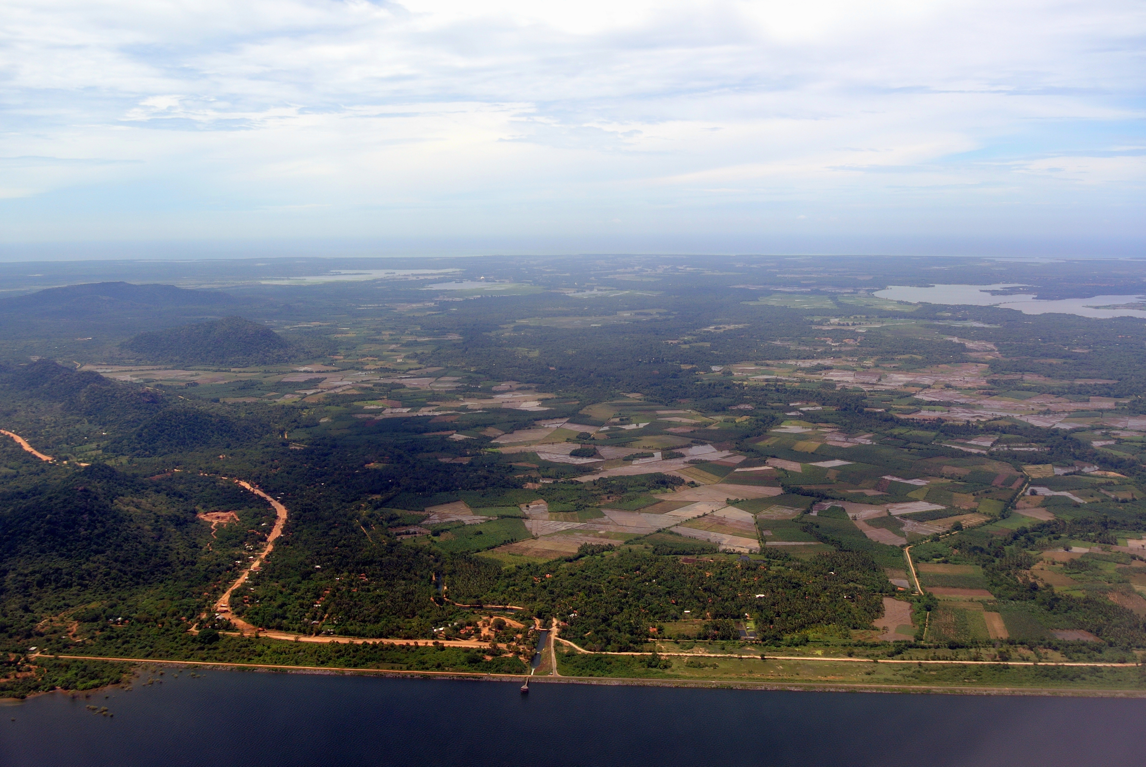 Aerial view of the Ridiyagama Dam and Southern Province in Sri Lanka, from above Ridiyagama towards southeast. Nikon 1 V1 + 1 Nikkor VR 10-30mm f/3.5-5.6